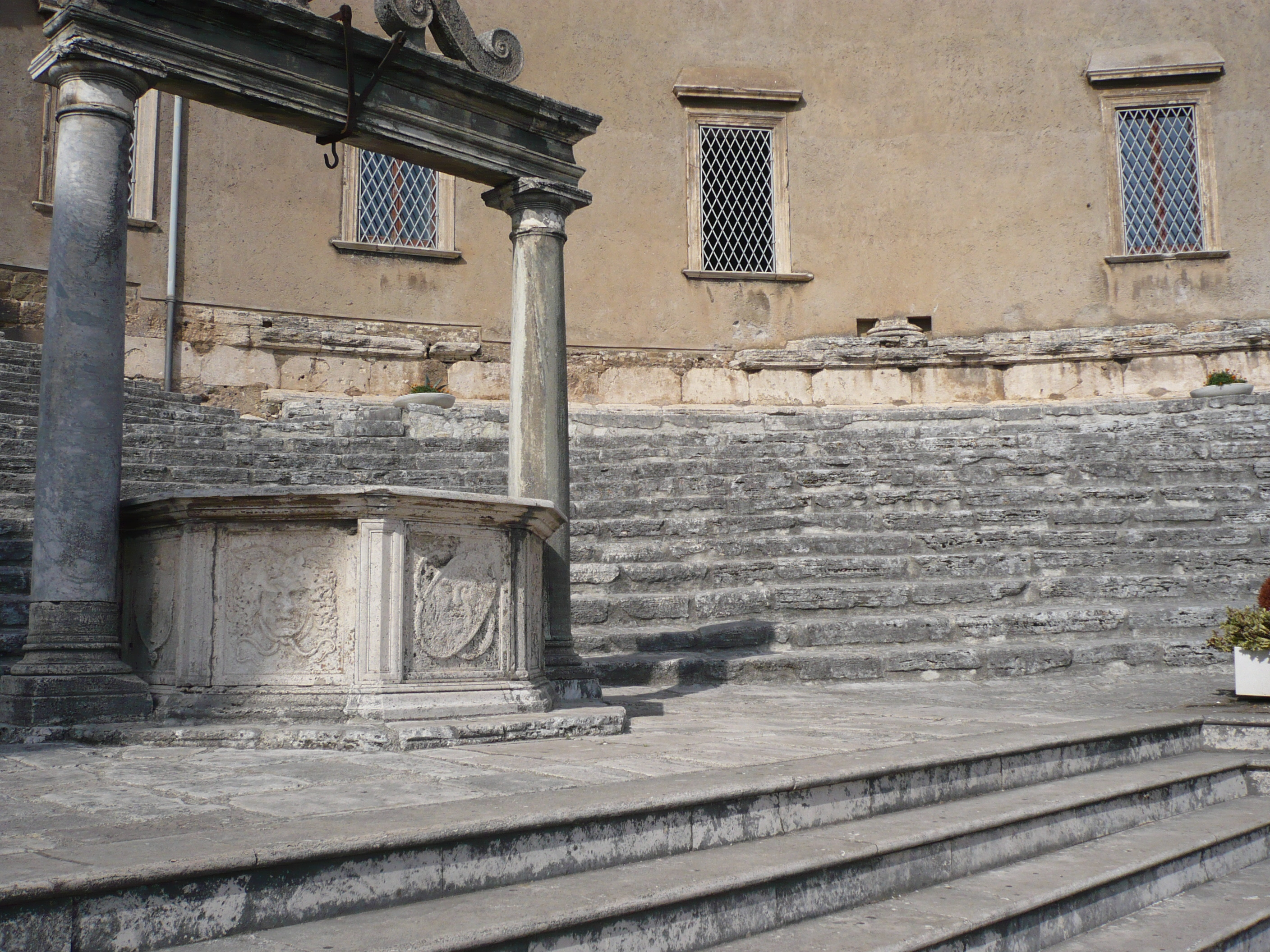 Ruins of the Sanctuary of Fortuna Primigenia and Palazzo Barberini, Palestrina.